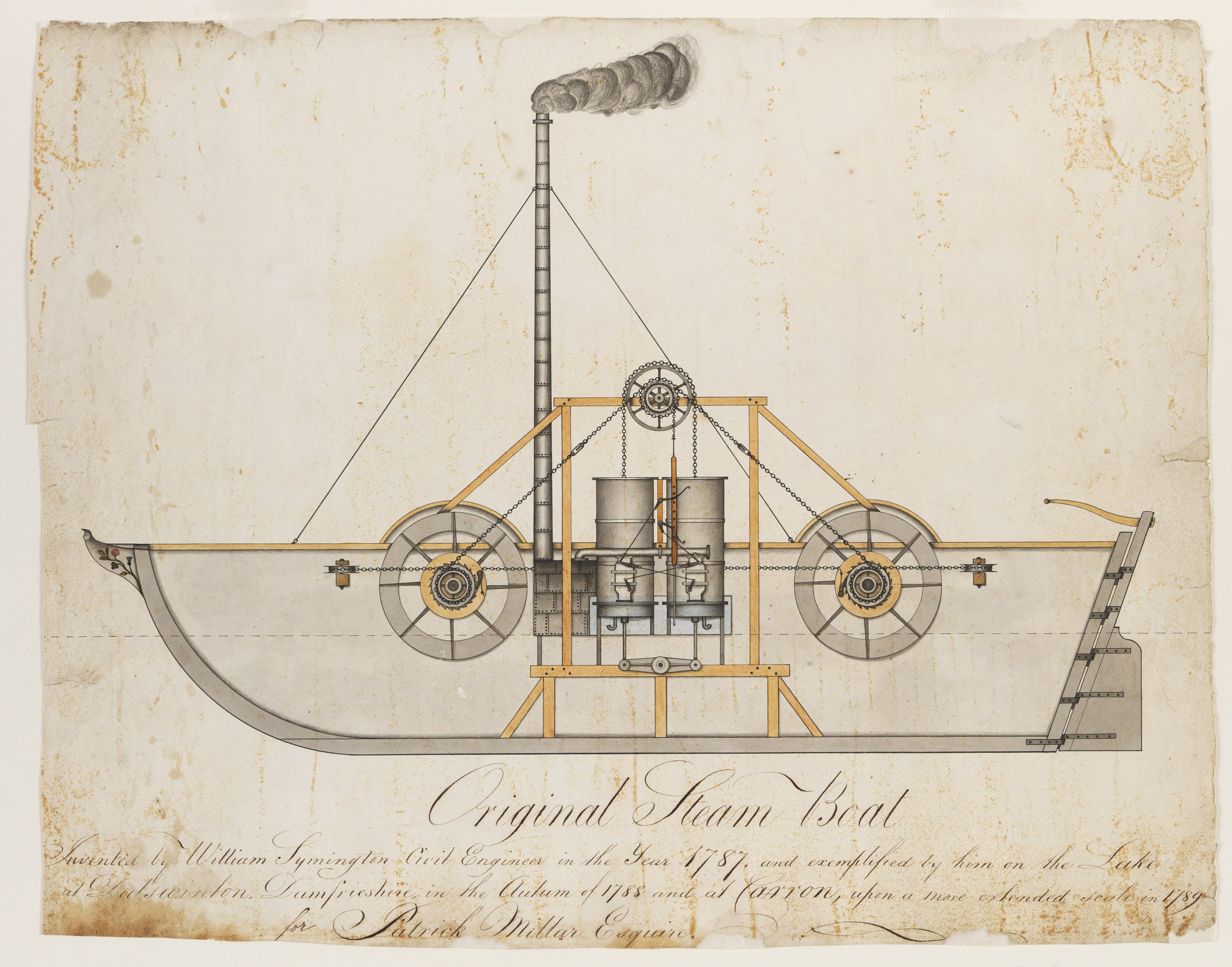 Engineering Drawing - William Symington, Original Steam Boat for Patrick Miller Esq, 1787-1788